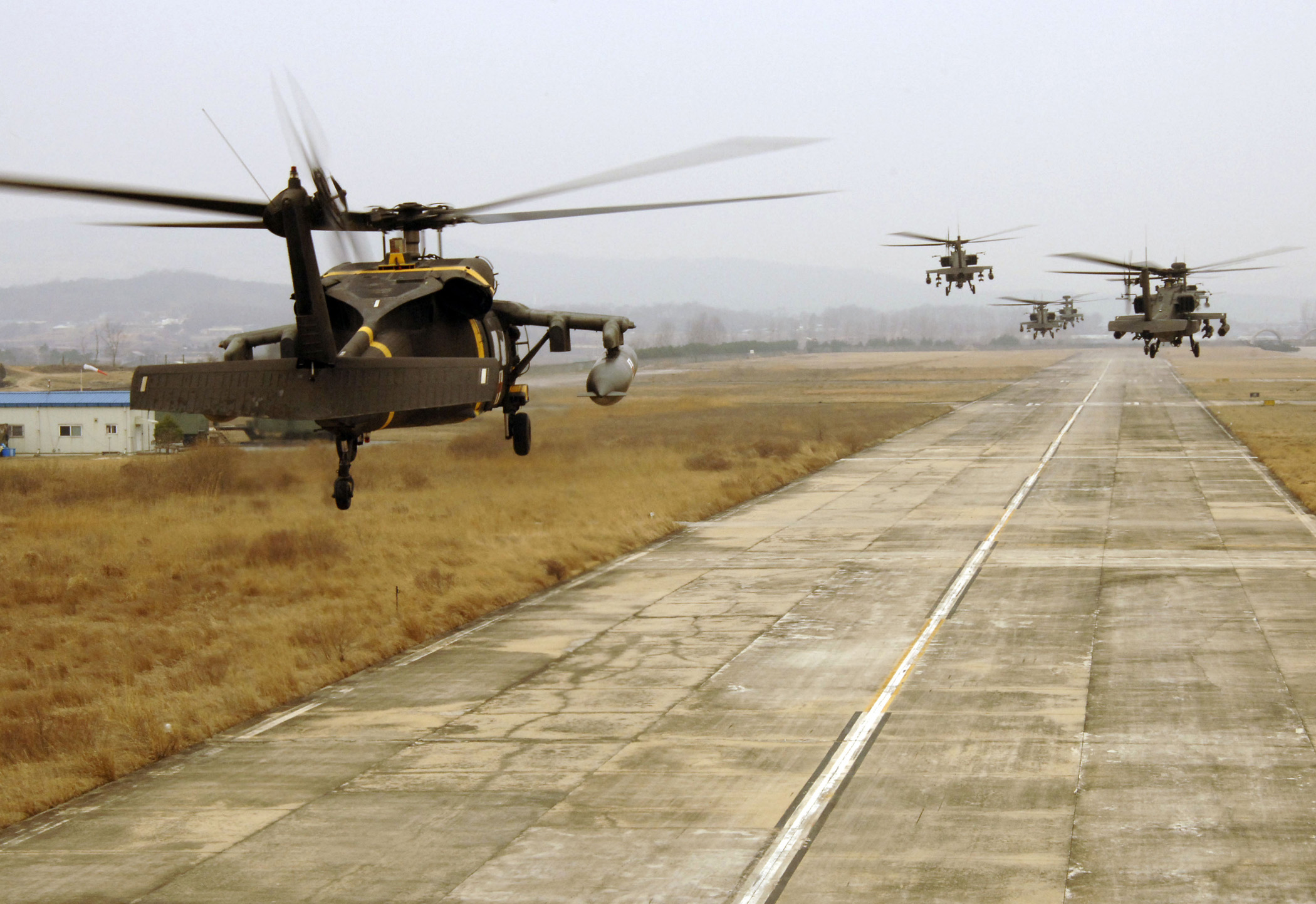 UH-60 Black Hawk and AH-64 Apache helicopters take off from Republic of Korea, Military Base G510 March 26, 2007, during exercise Reception, Staging, Onward movement, and Integration / Foal Eagle 2007